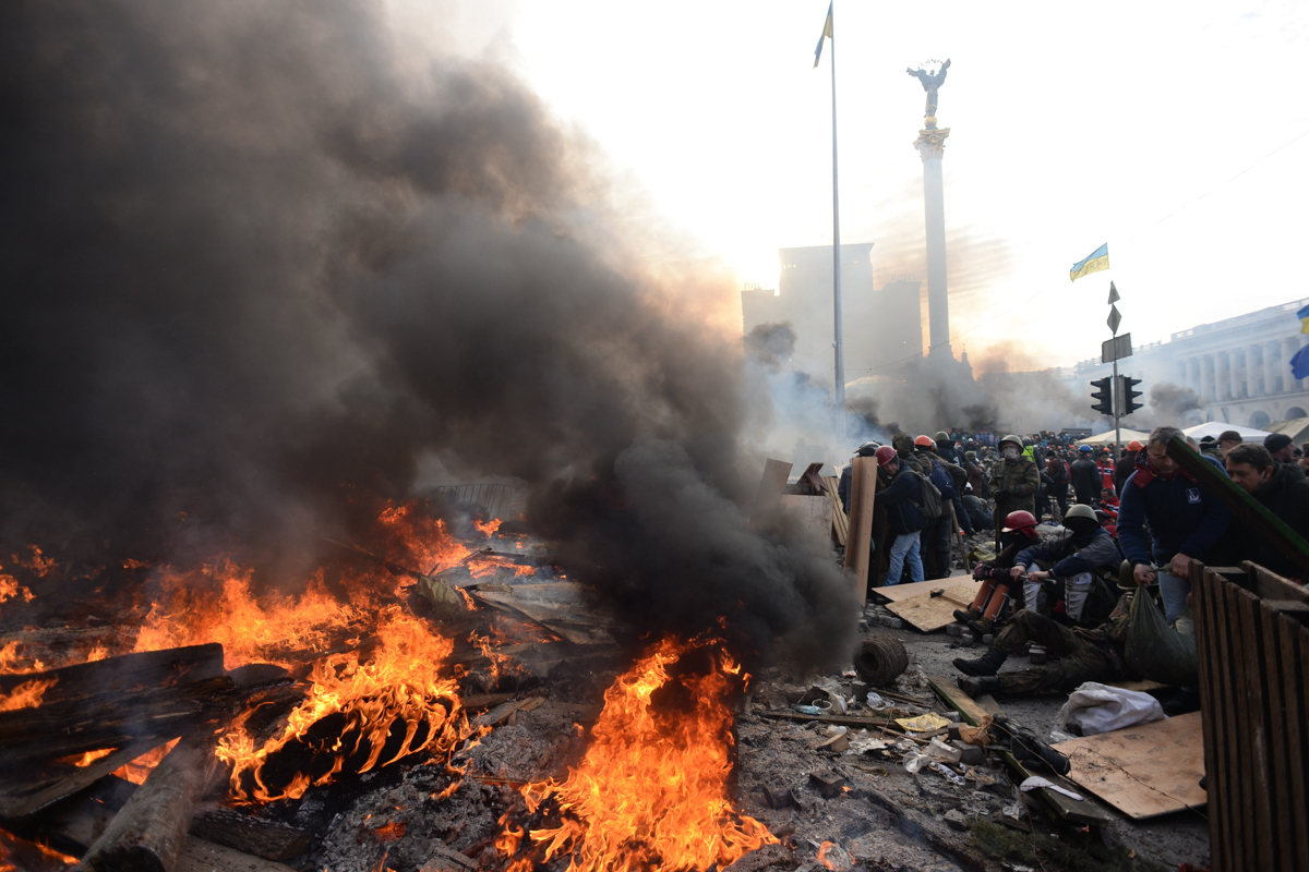 Independence square during clashes in Kyiv, Ukraine. Events of February 19, 2014